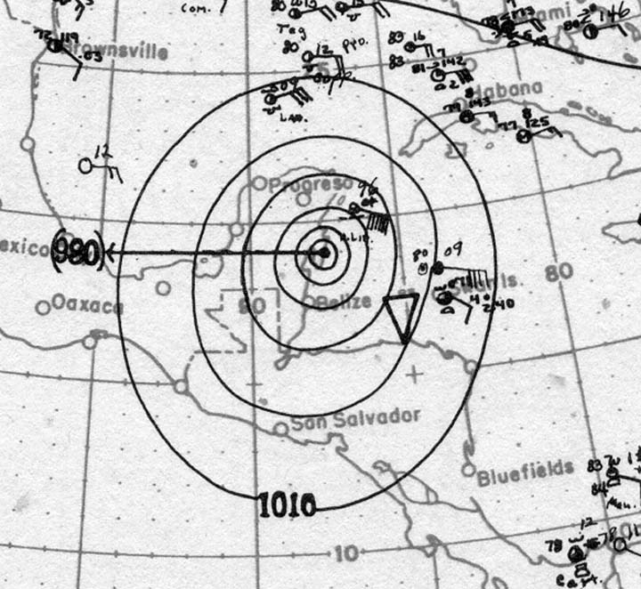 Surface weather analysis of Hurricane Fourteen of the 1916 Atlantic hurricane season making landfall on the Yucatan Peninsula on October 15, 1916.